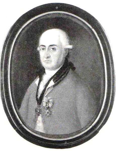 Otto Heinrich Reichsfreiherr von Gemmingen